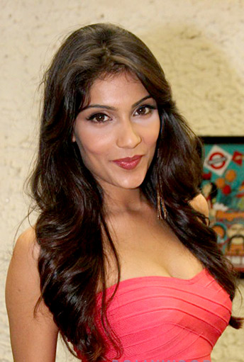 Sharma at the promotions of 'Pyaar Ka Punchnama 2' at The Little Door